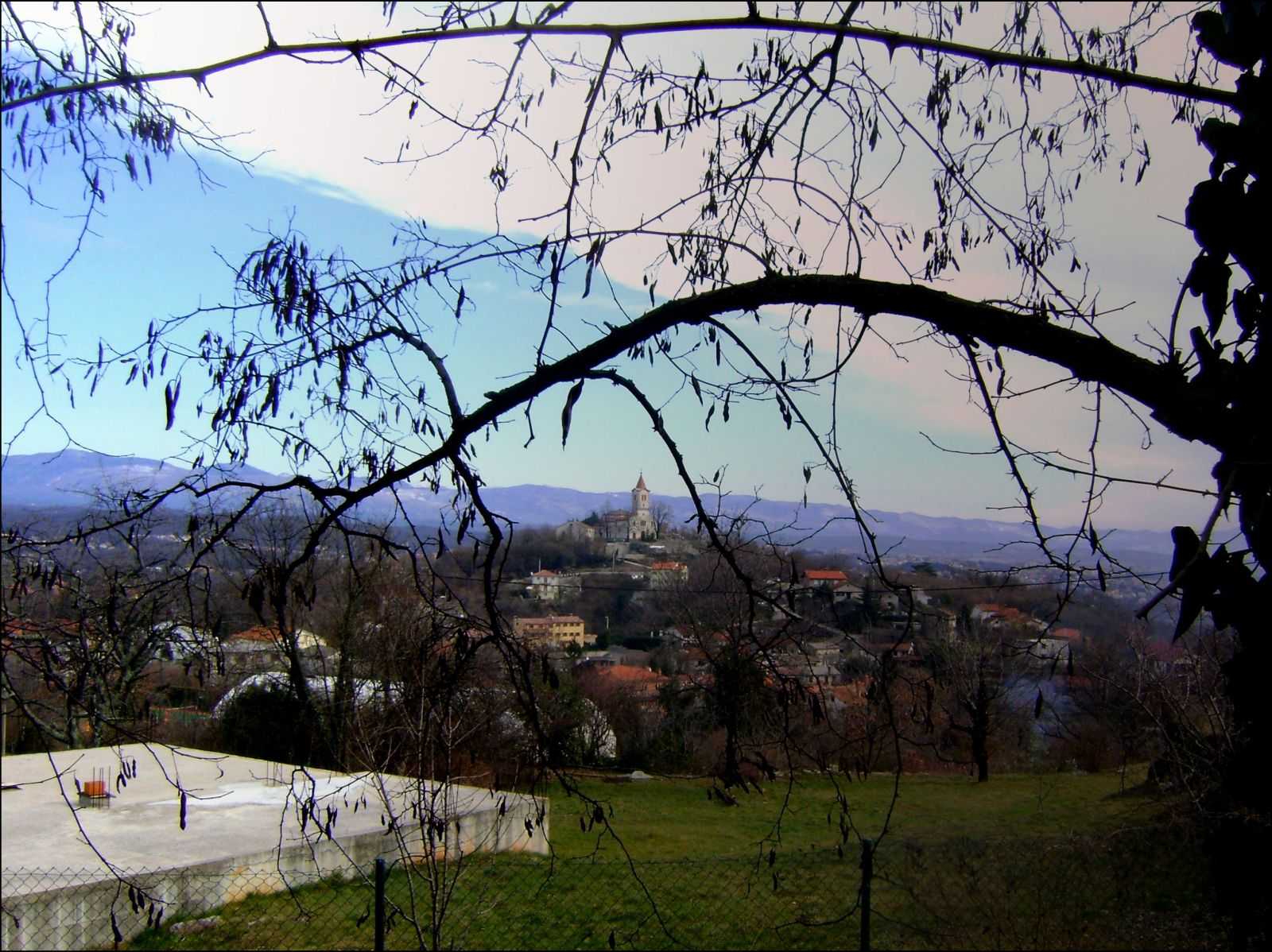 Rukavac - View on church